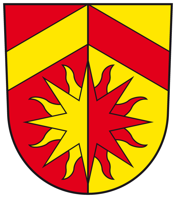 Coat of Arms of Häuslingen